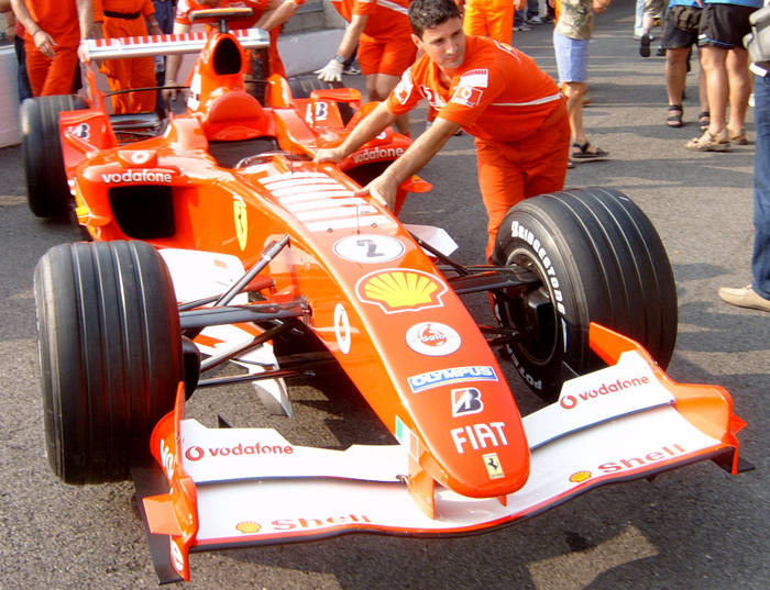 The Ferrari F2005